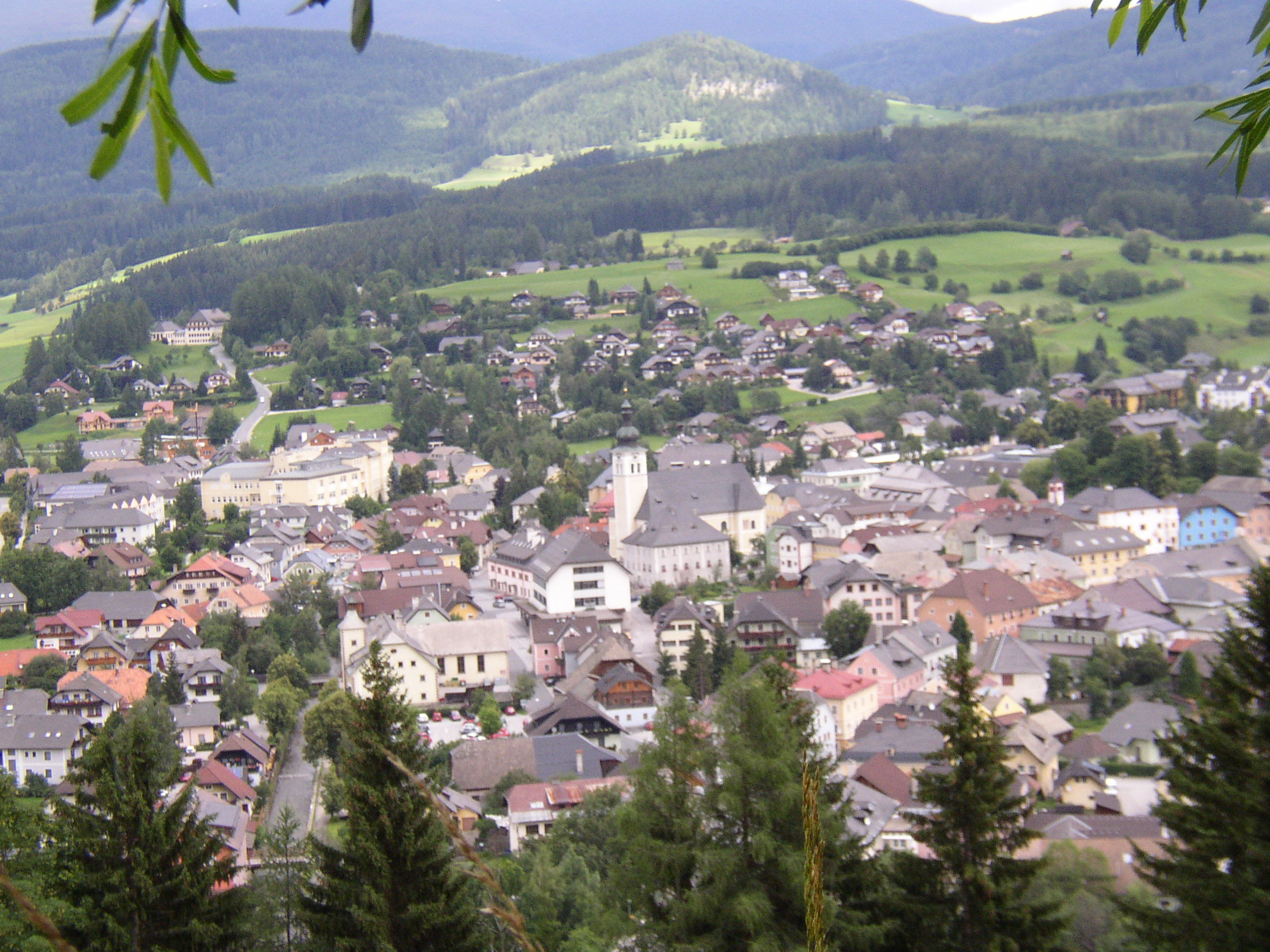 View of Tamsweg, seen from Saint Leonhard church